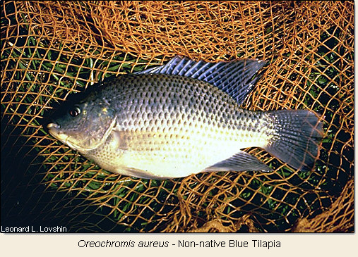 Blue tilapia (Oreochromis aureus)